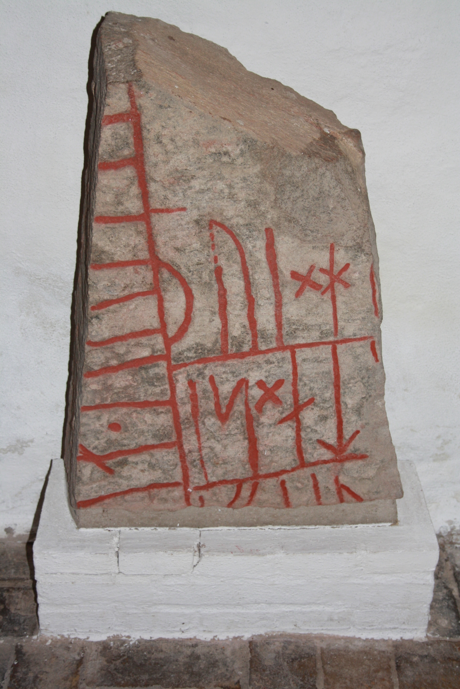 Runestone (Ålum 2) at Ålum Church, Mid-Jutland, Denmark. Runesten (Ålum 2) i våbenhuset ved Ålum kirke øst for Randers